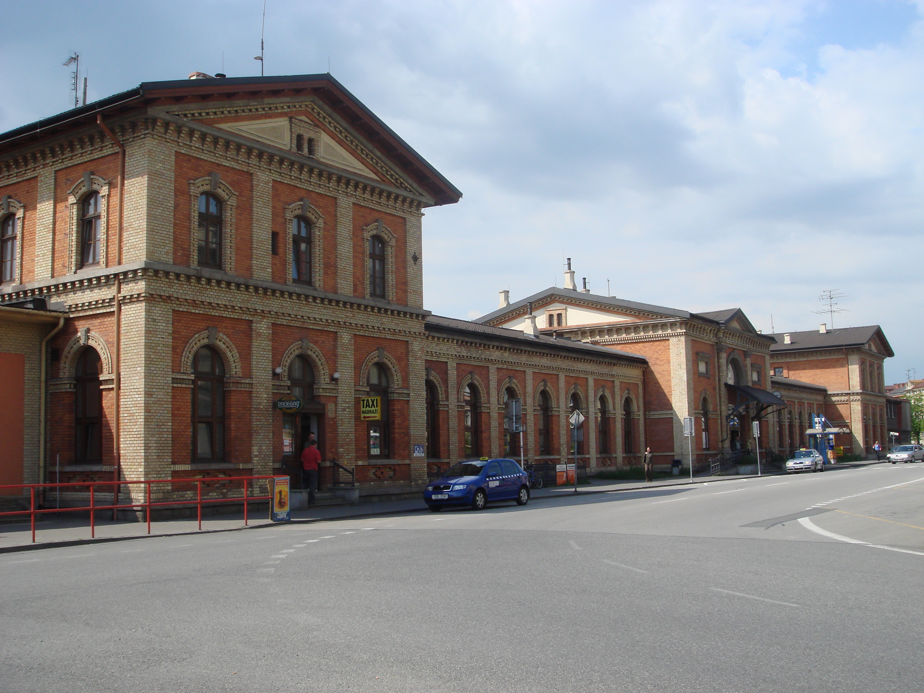 Railway station in Český Těšín (Moravian-Silesian Region, Czech Republic).